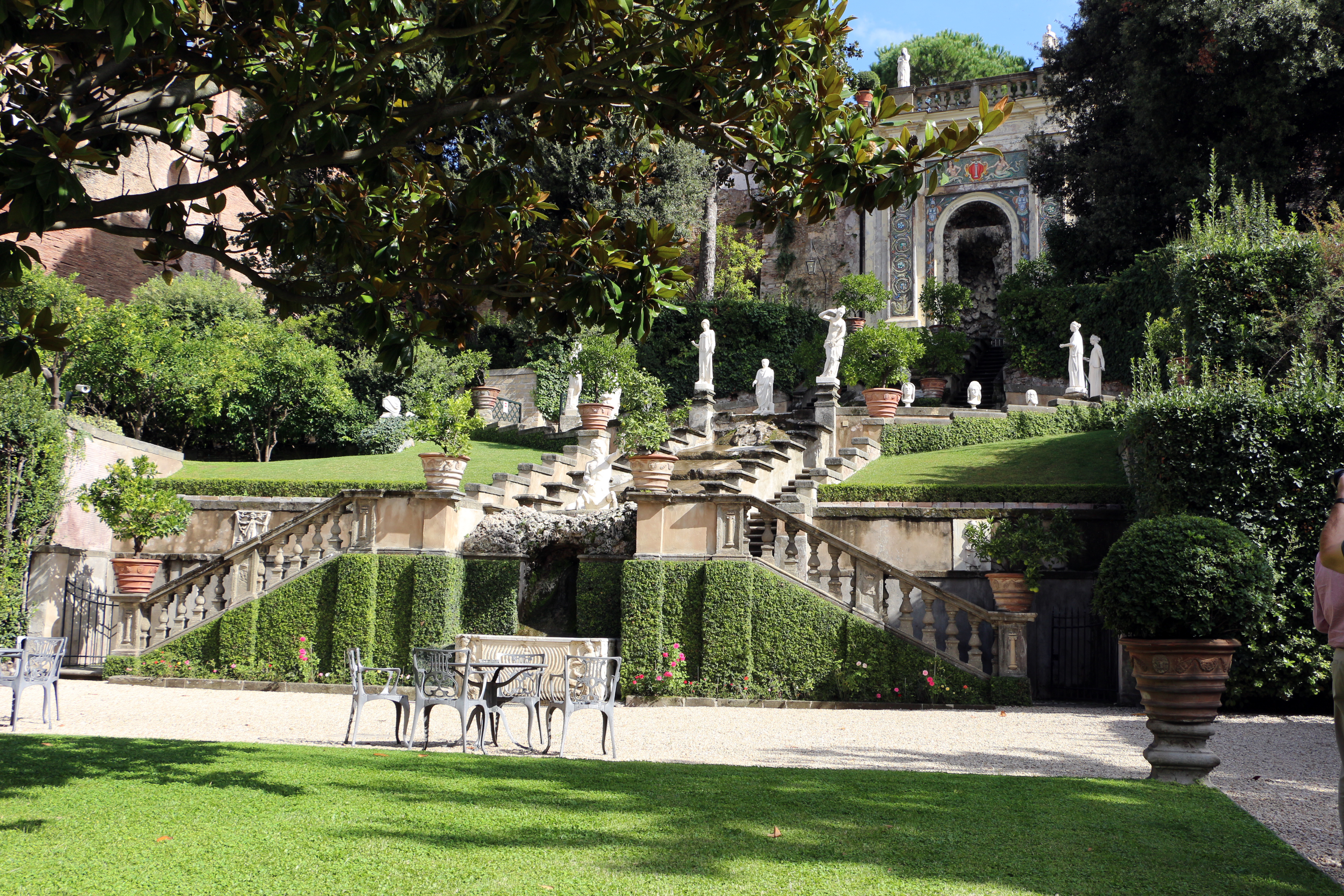 Palazzo Colonna (Rome) - Gardens